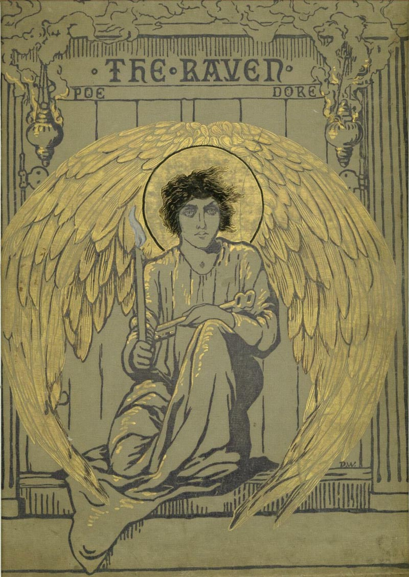 Cover for "The Raven" by Edgar Allan Poe as illustrated by Gustave Dore